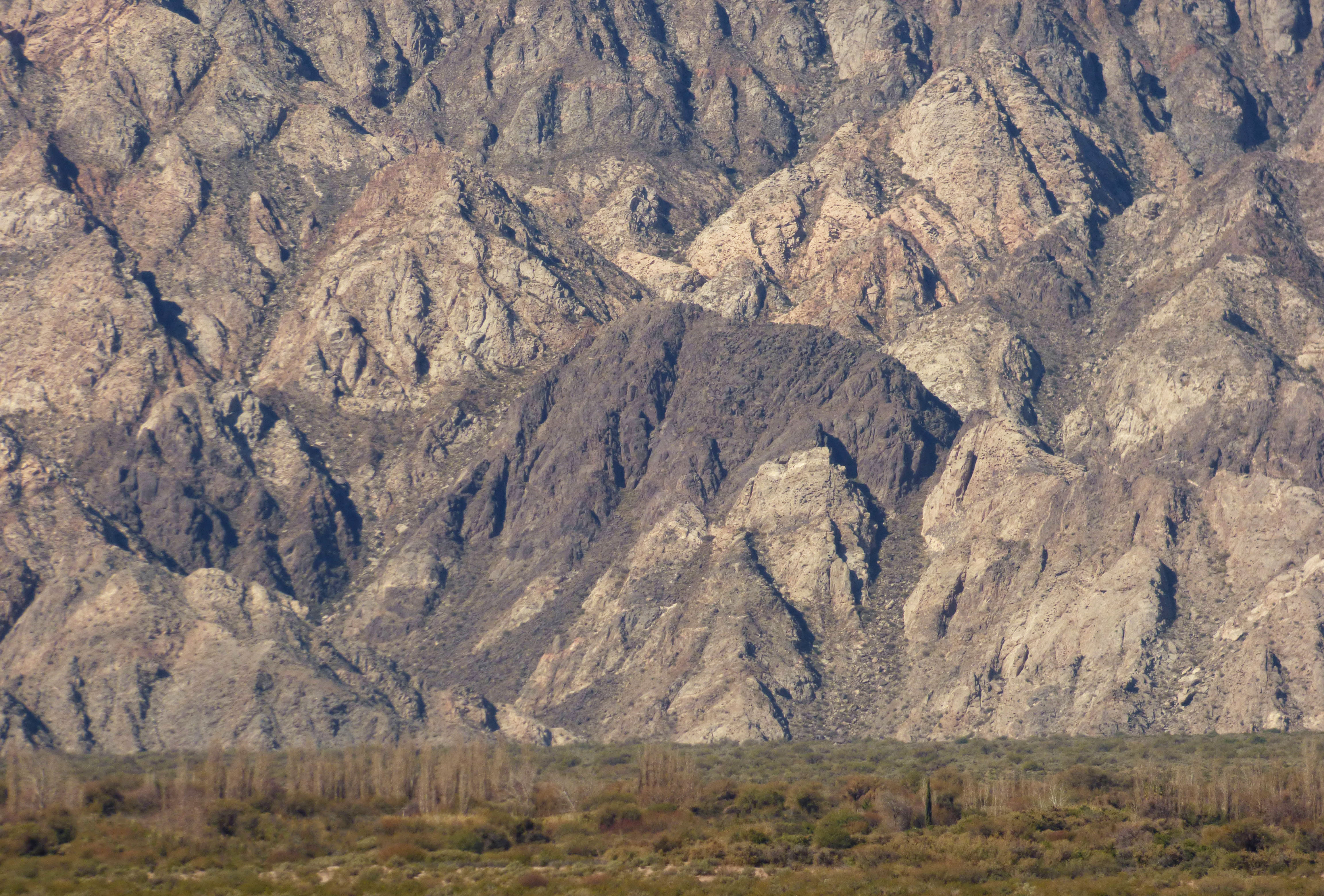 Esta imagen fue tomada en el Cerro del Toro, en la localidad de Villa Castelli. Se puede observar la forma de un toro en el cerro, este toro se muestra como furioso, enojado, domando. Pero detrás de esa simple forma hay una historia, ese lugar fue cuna de aborígenes, allí hubo un gran asentamiento de la civilización Diaguita, actualmente se encuentran pircas que ellos tenían como viviendas tanto en el lomo el toro como en la base.